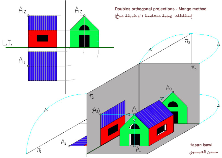 Doubles orthogonal projections - Monge method